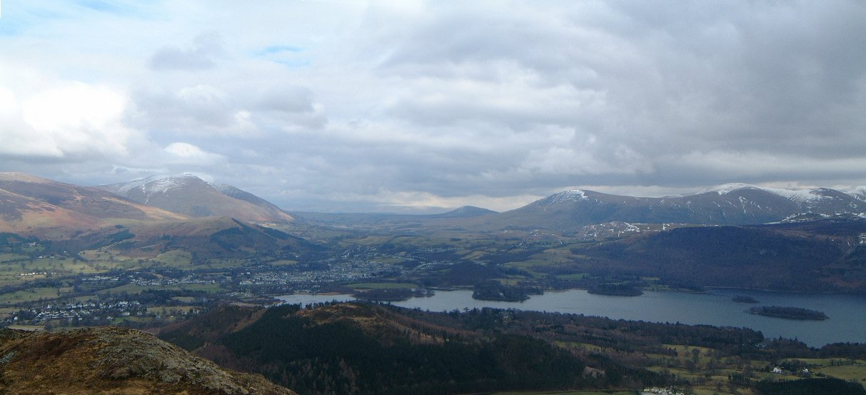 Personal photograph taken on March 20th 2006 by Mick Knapton 21:17, 23 March 2006 (UTC)